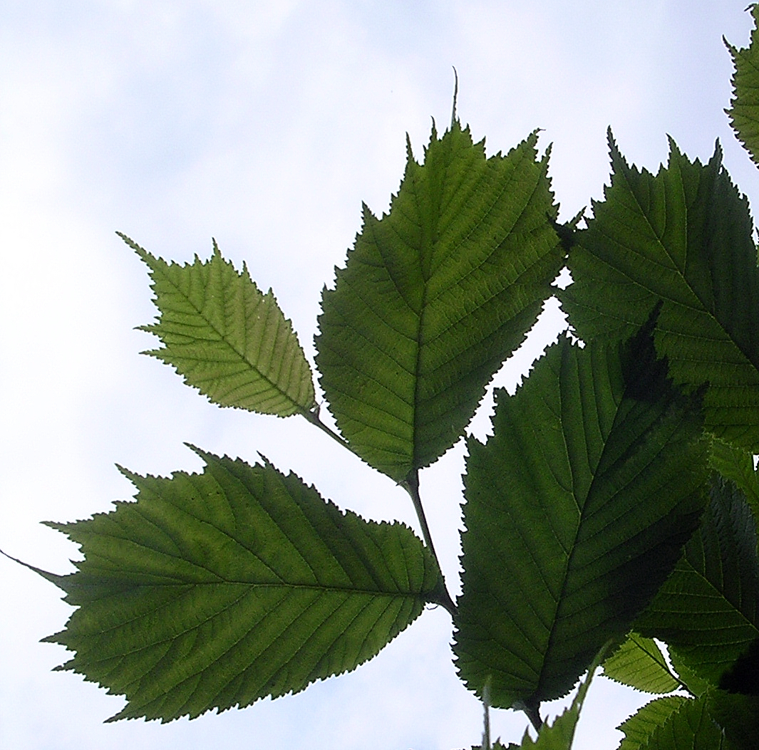 Ulmus Lacinata leaves; Photo taken by author, Fontley, England, May 2007